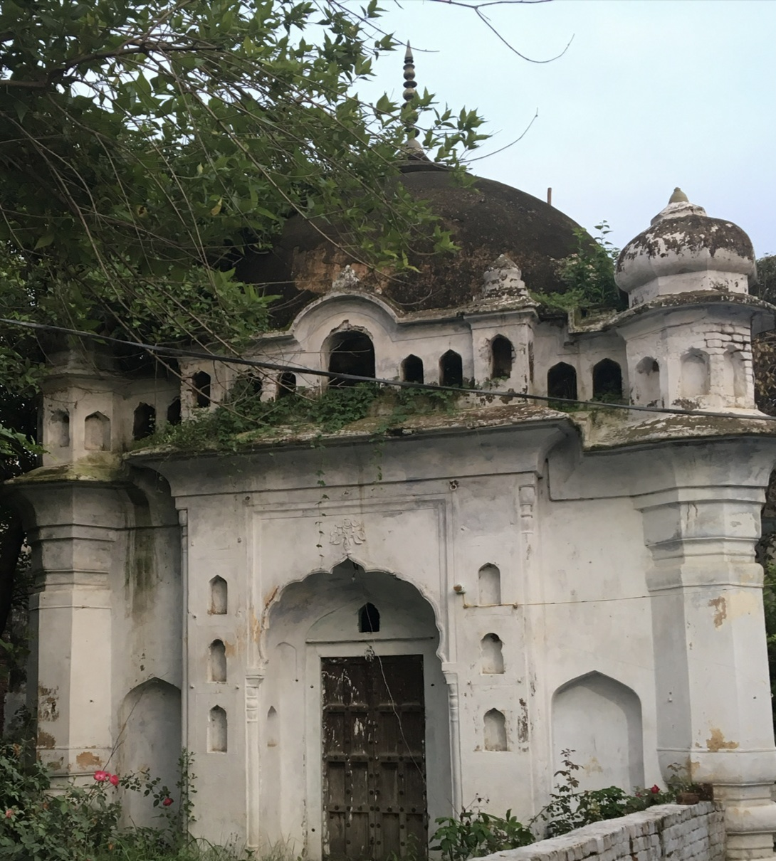 Syed Tomb is the Makhbara located in Abdullapur Meerut